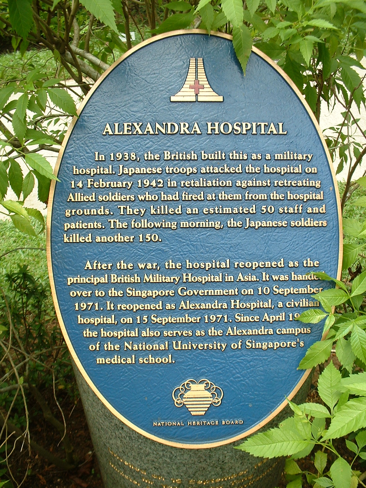 Dedication plaque at the Alexandria Hospital.